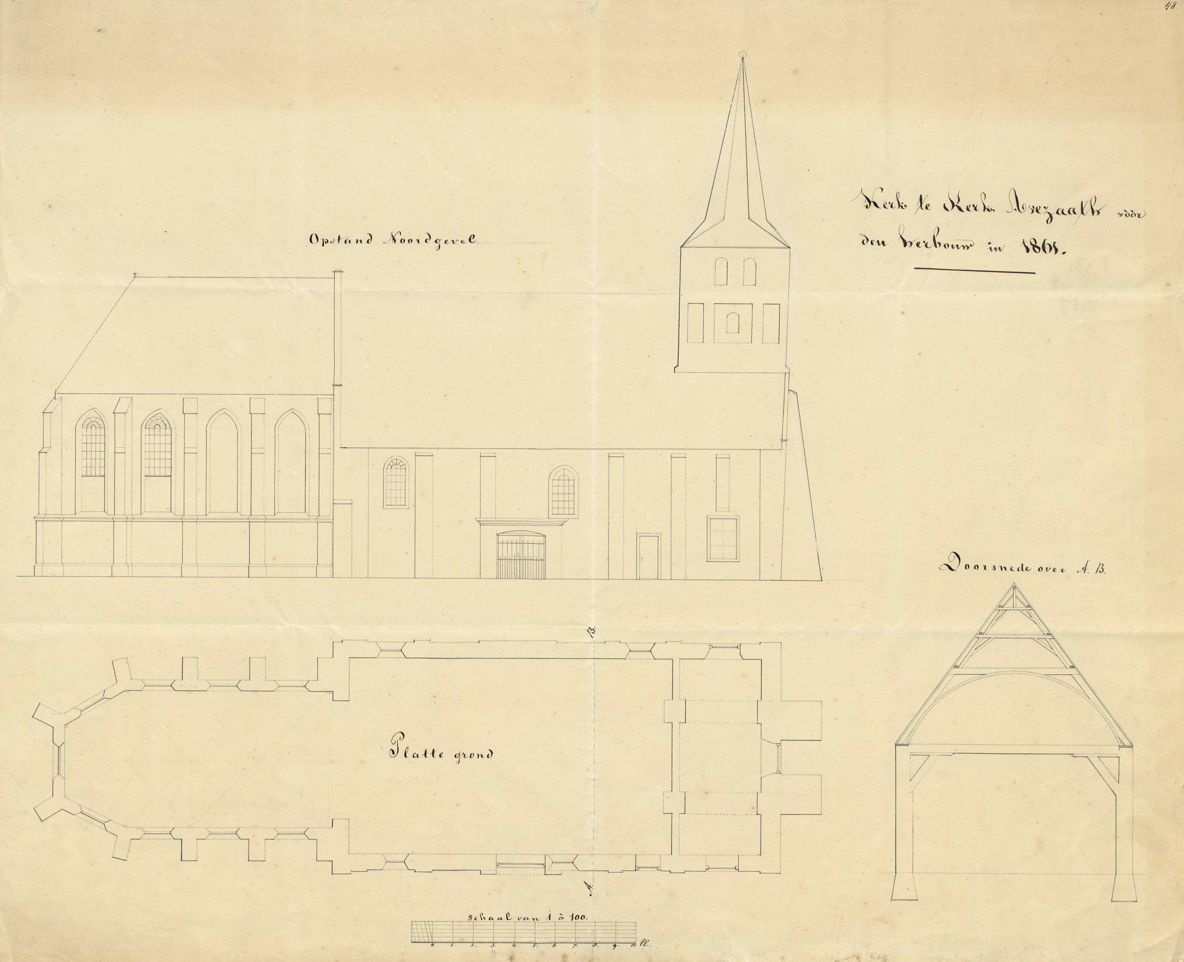 A drawing picturing the Sint-Lambertus church in the village Kerk-Avezaath in the Netherlands. All is drawn to scale and resembles the situation prior to the reconstruction of 1861. The scale is in the Dutch measuring unit 'El'. 1 El = 69,4 cm = 27,32 inch. Pictured are the north side of the building, a floor plan and a section from the line A-B.